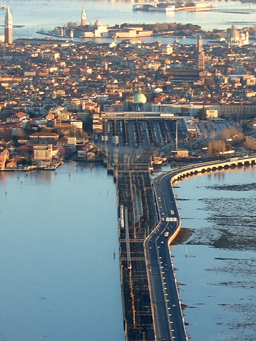 Venezia Santa Lucia train station